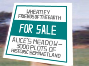 A rendering of the 'For Sale' board used as part of the Alice's Meadow Campaign, by Wheatley Friends of the Earth to prevent the proposed M40 Motorway extension across Otmoor.